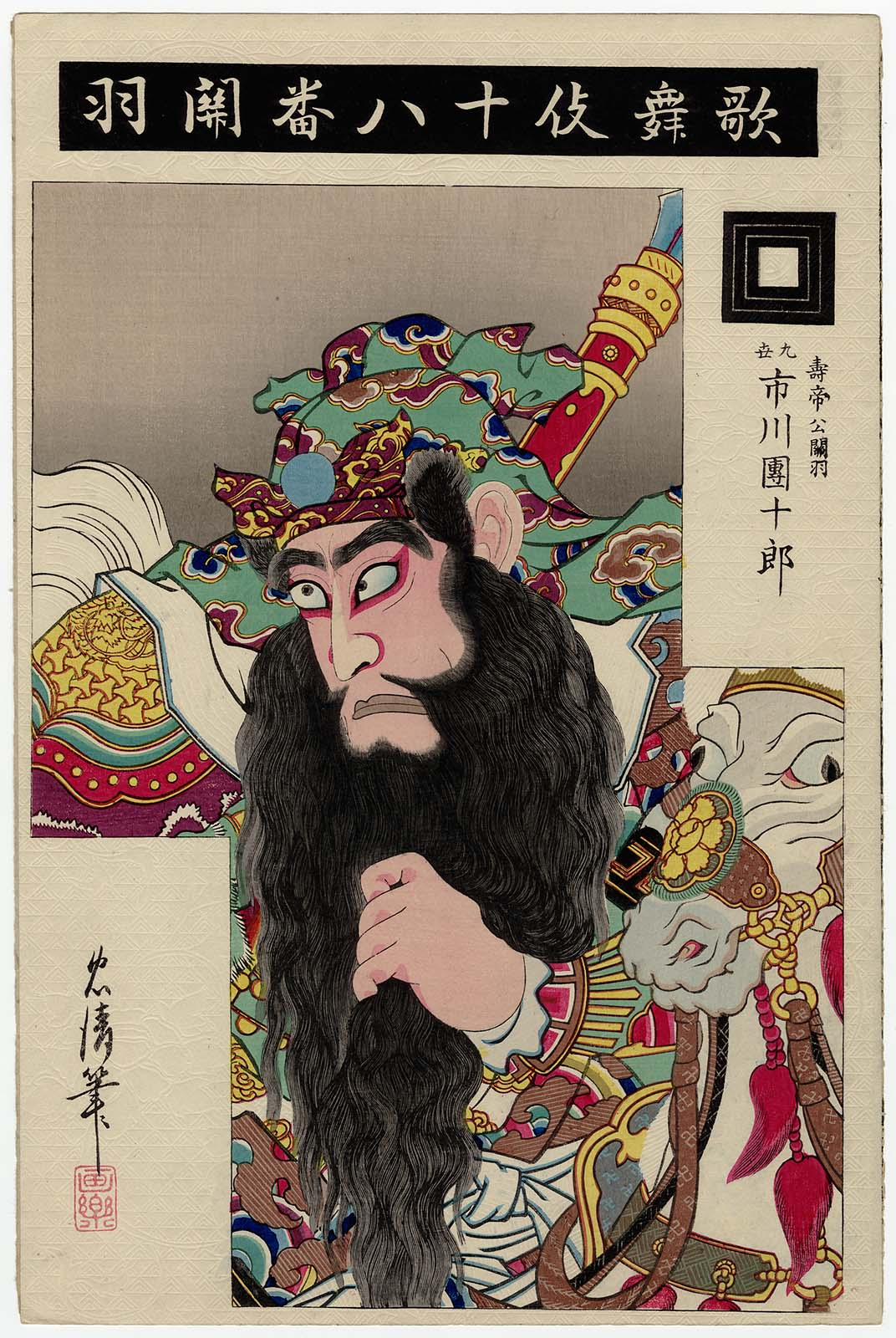 Part of the series The Eighteen Great Kabuki Plays